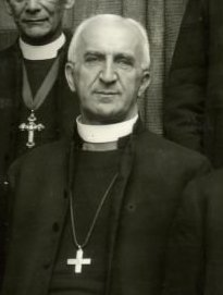 John Farthing, then Anglican Bishop of Montreal